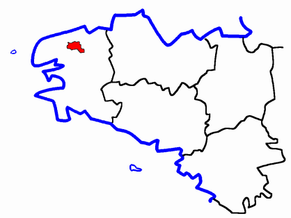 Map for localisazion of cantons of Bretagne region in France